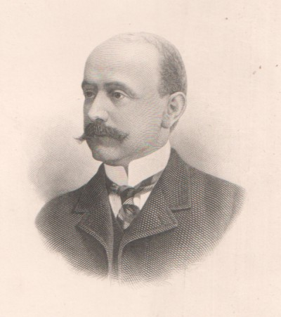 Portrait of Sidney Epes